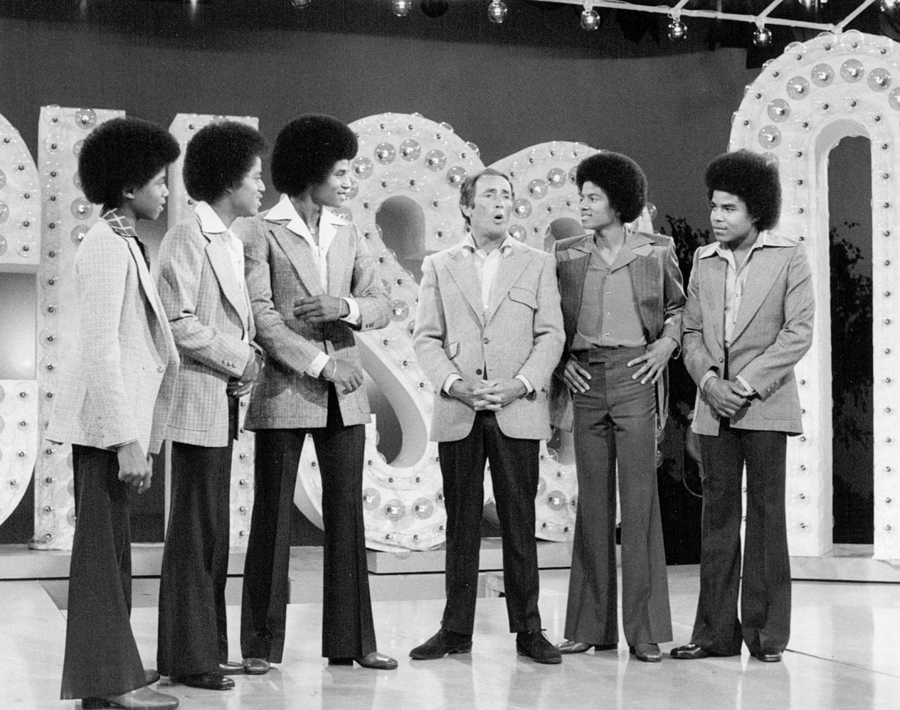 Photo of Joey Bishop and the Jacksons from their television program. From left: Randy, Marlon, Jackie, Michael and Tito.